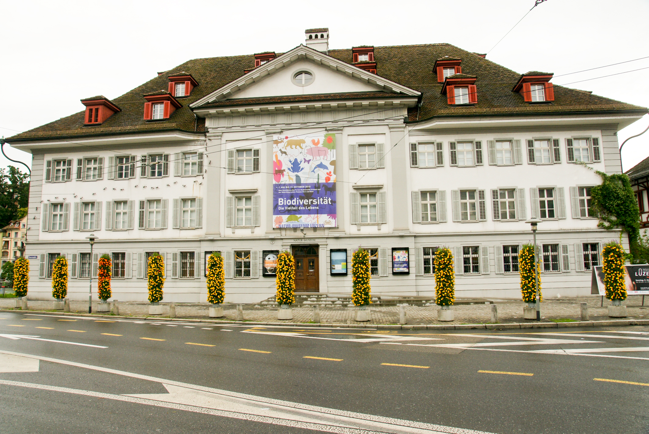 Museum of nature in Lucerne